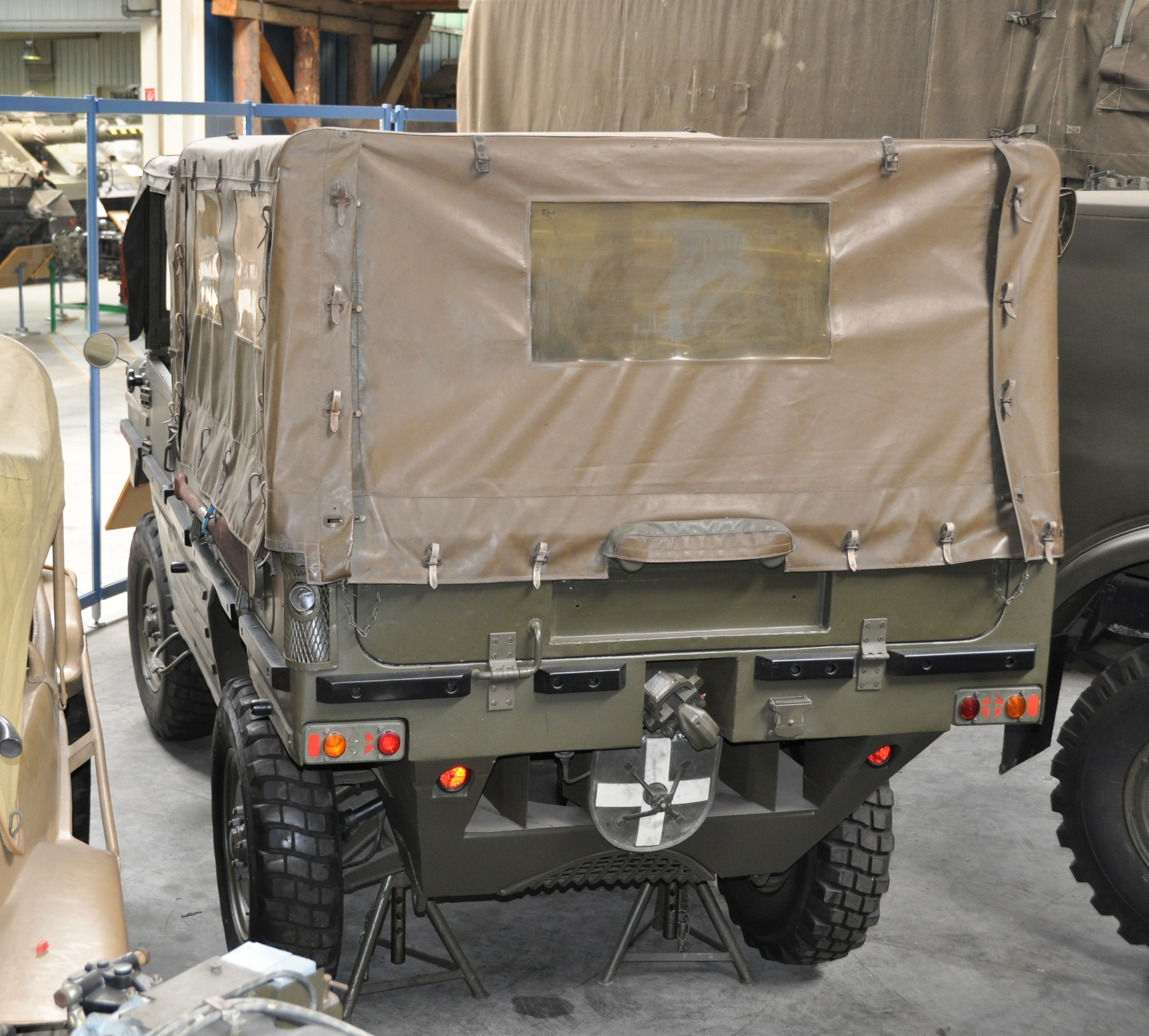 Rear of the Europa-Jeep by Bussing-Hotchkiss-Lancia